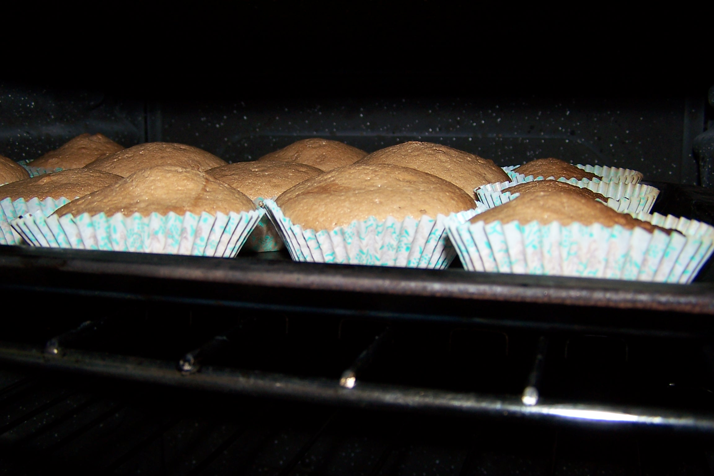 Fairy cakes in an oven, part way through cooking, taken from an angle.